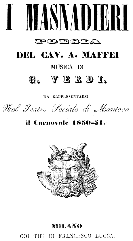 Giuseppe Verdi - I masnadieri - titlepage of the libretto - Milan 1850